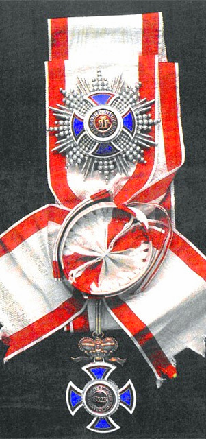 1st Class of the Order of Prince Danilo I. of Montenegro. Copy of photograph with order given to Nikola Tesla